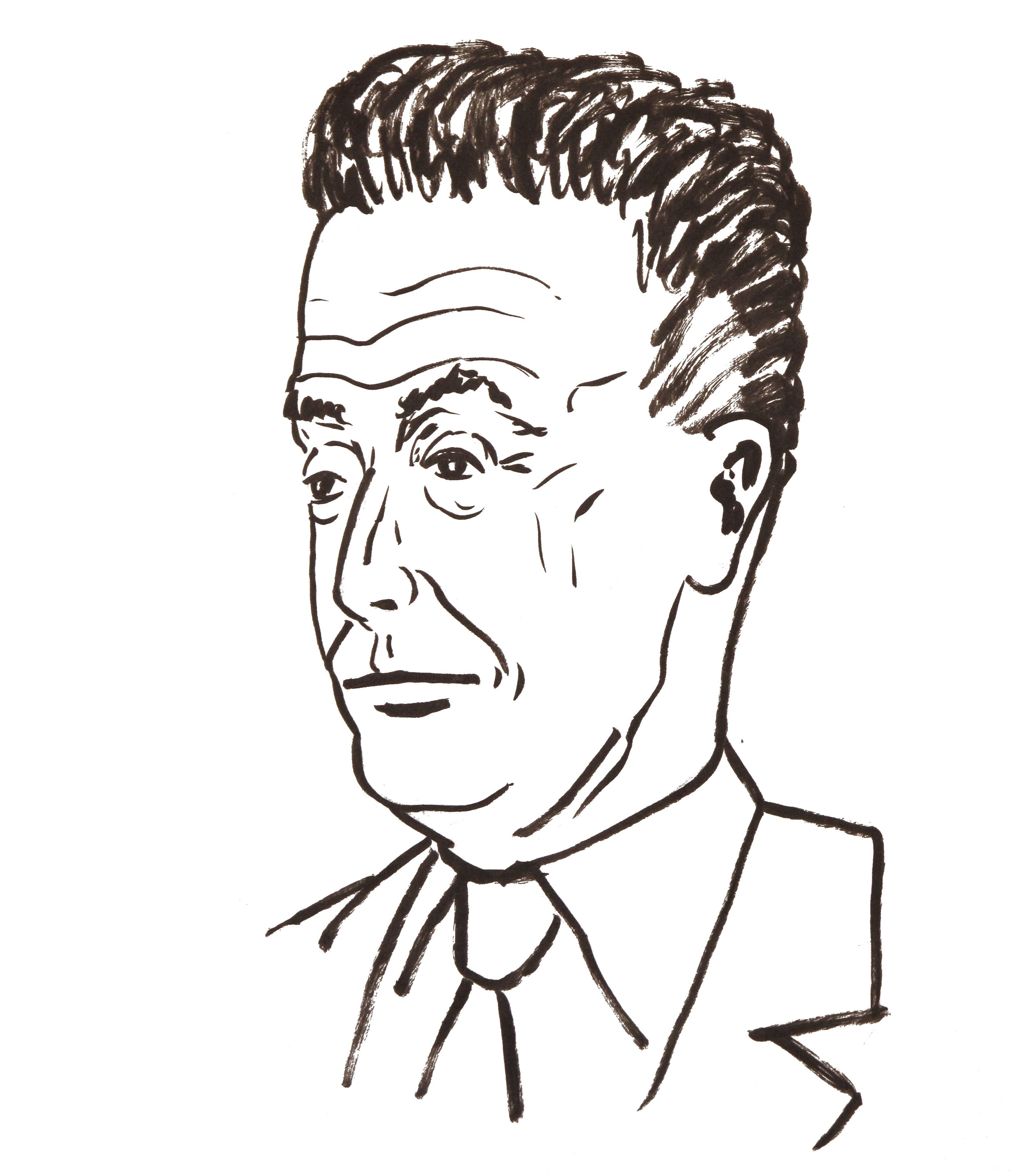 Paul Eddington